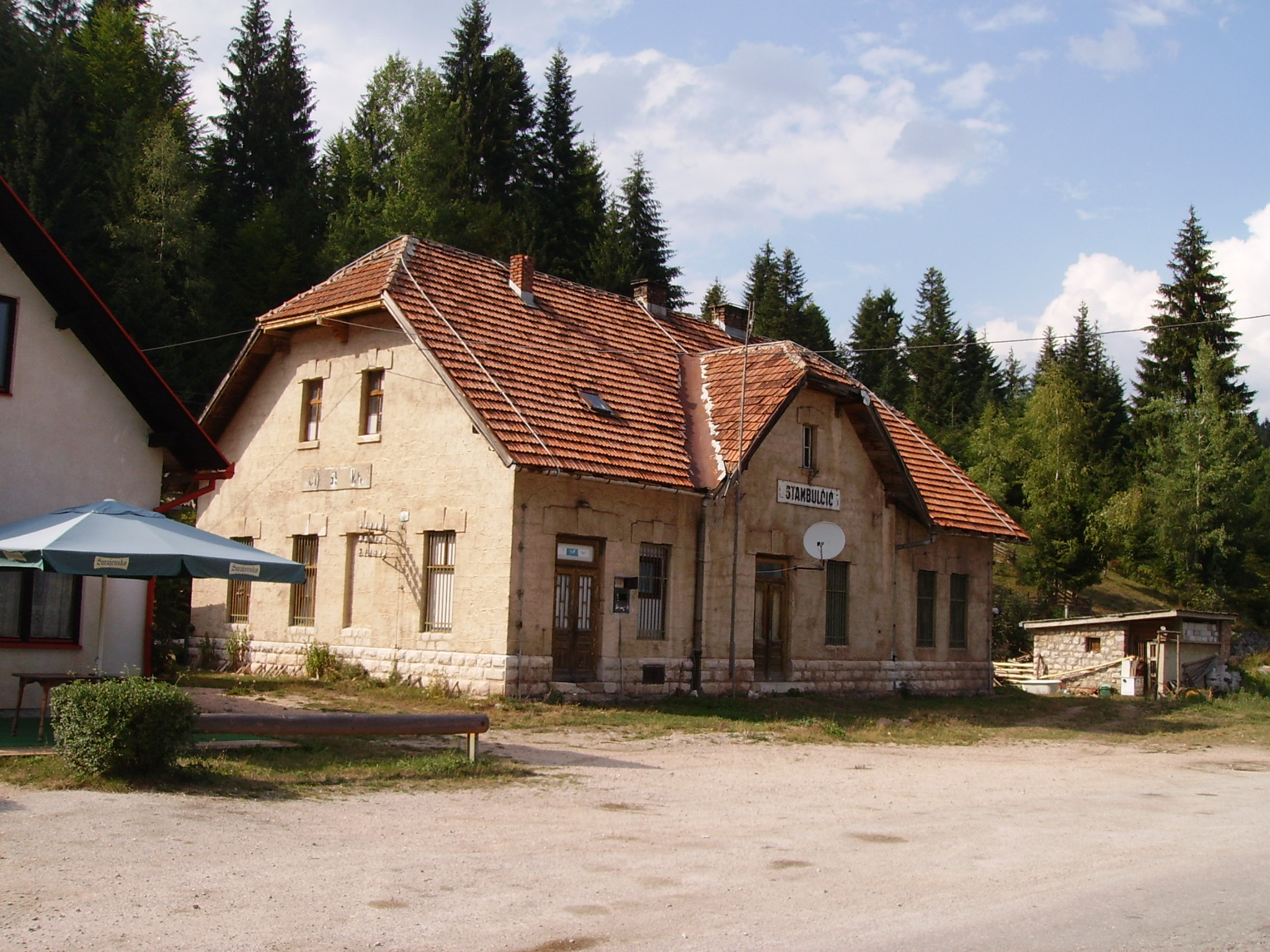 Former railway station of Stambulčić (East of Sarajevo, Bosnia and Herzegovina).